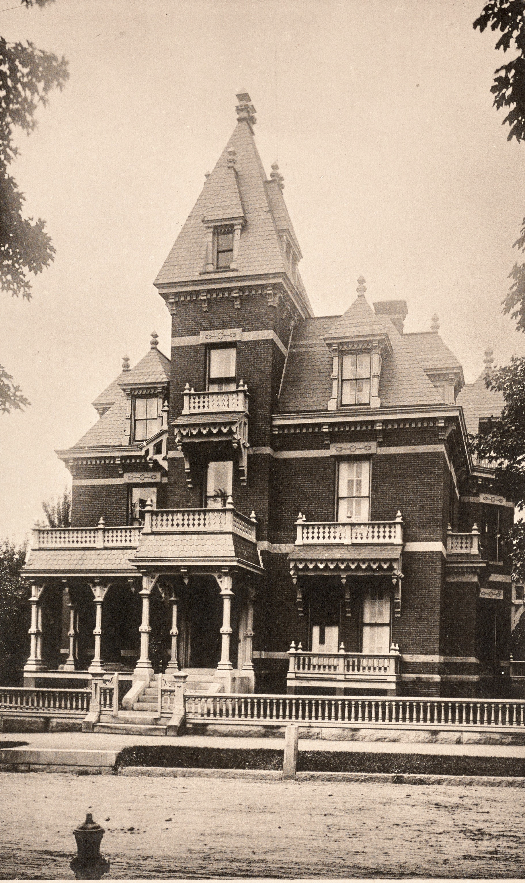 The house of Roswell P. Crafts, second and sixth mayor of Holyoke, Massachusetts, circa 1891, an example of Second Empire architecture in the city.